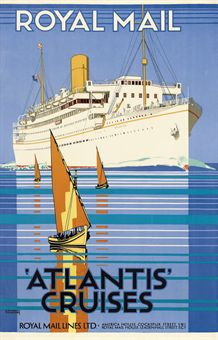 Royal Mail Lines poster of the passenger liner Atlantis